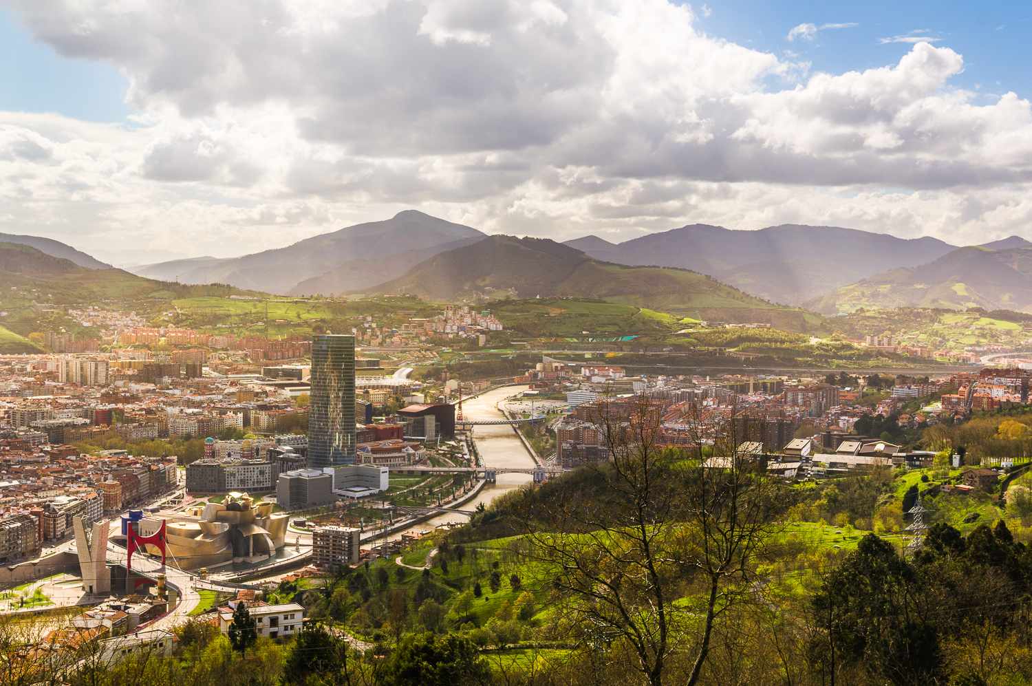 Cityscape - Bilbao, Spain